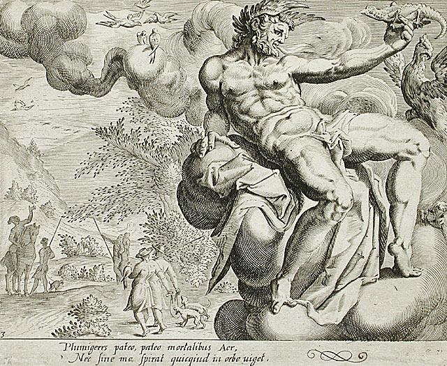 Air Print, Engraving, 16.51 x 20.32 cm. After Jacob de Gheyn. In the collection of the Los Angeles County Museum of Art.